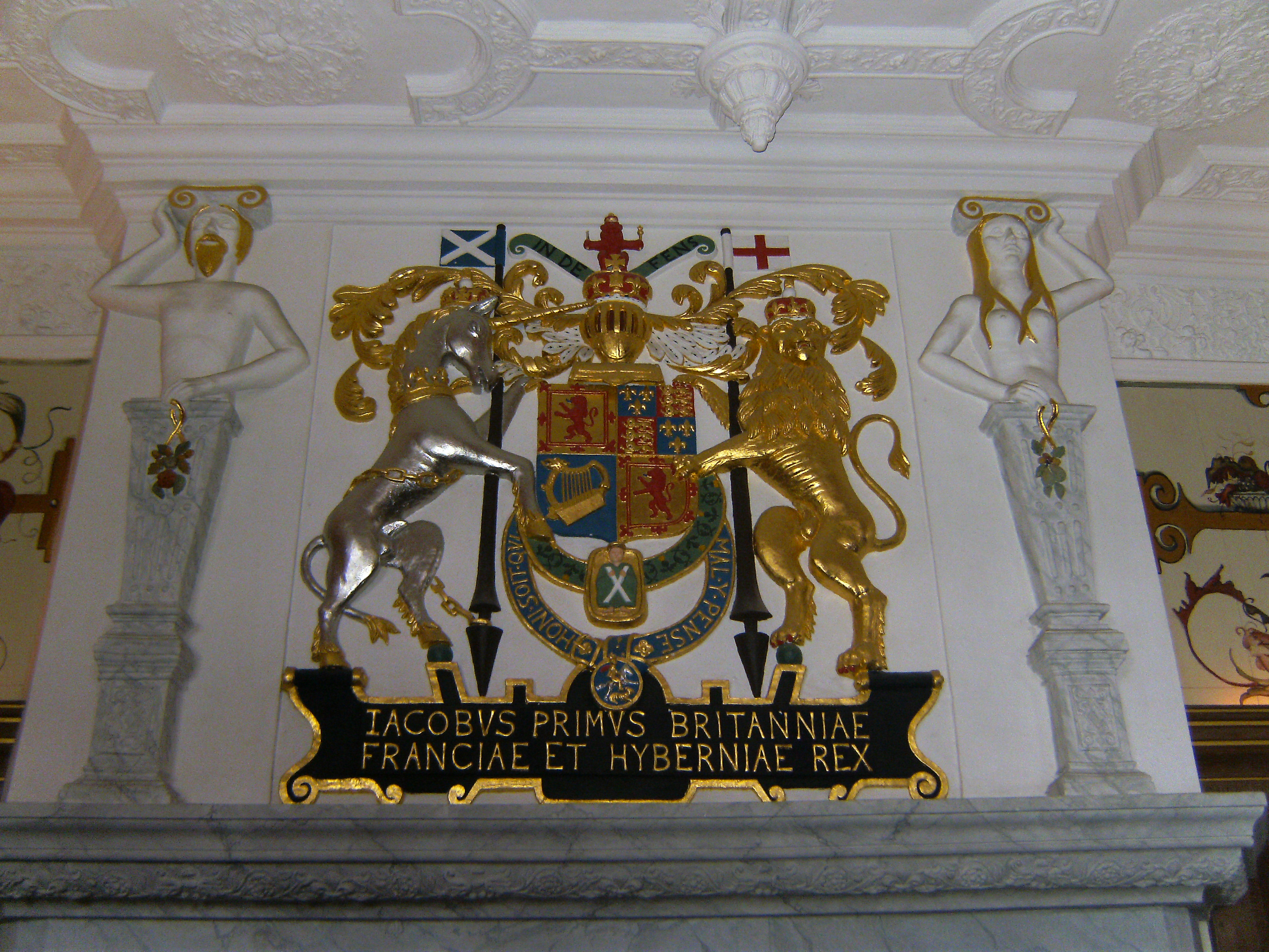 Arms of James I, King of Britain, France and Ireland in the royal apartments at Edinburgh Castle